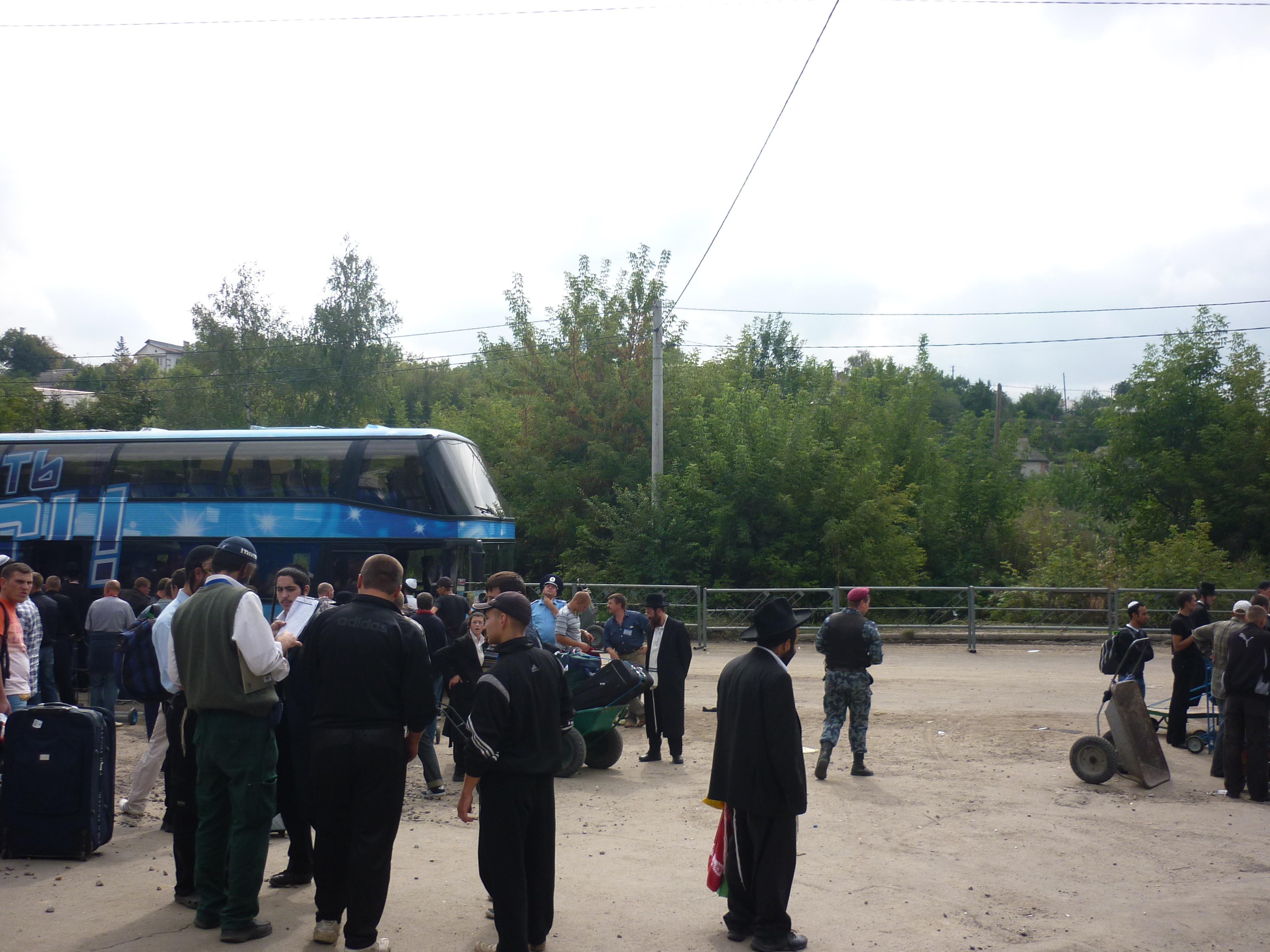 Hasidic peoples in Uman